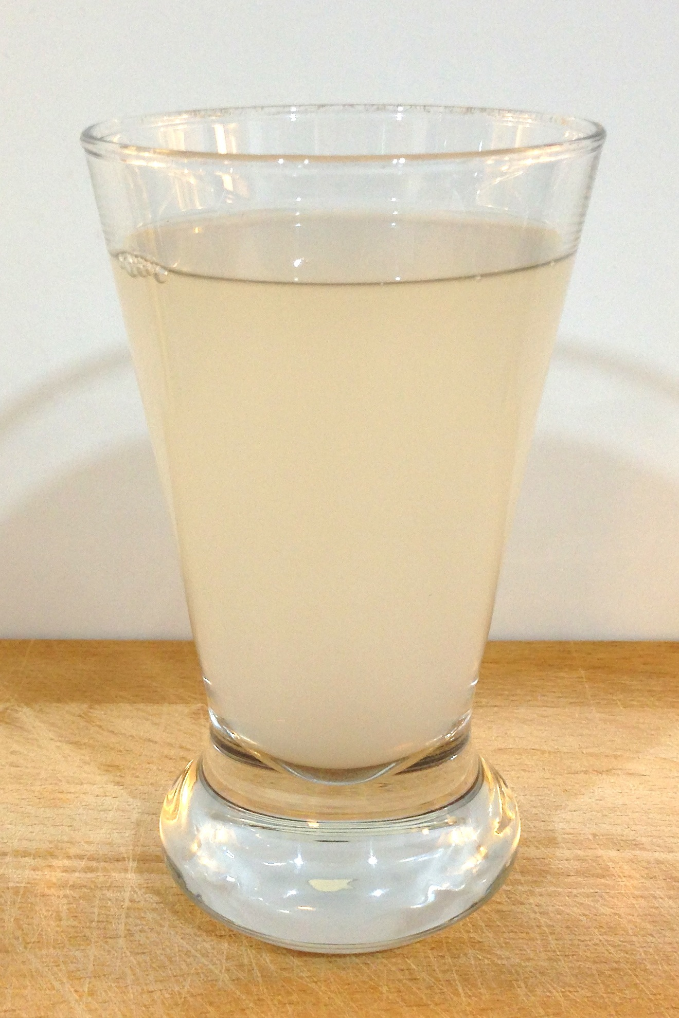 A glass of rejuvelac fermented from buckwheat sprouts